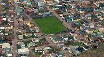 Stade Léonce Claireaux in Saint Pierre and Miquelon from the air